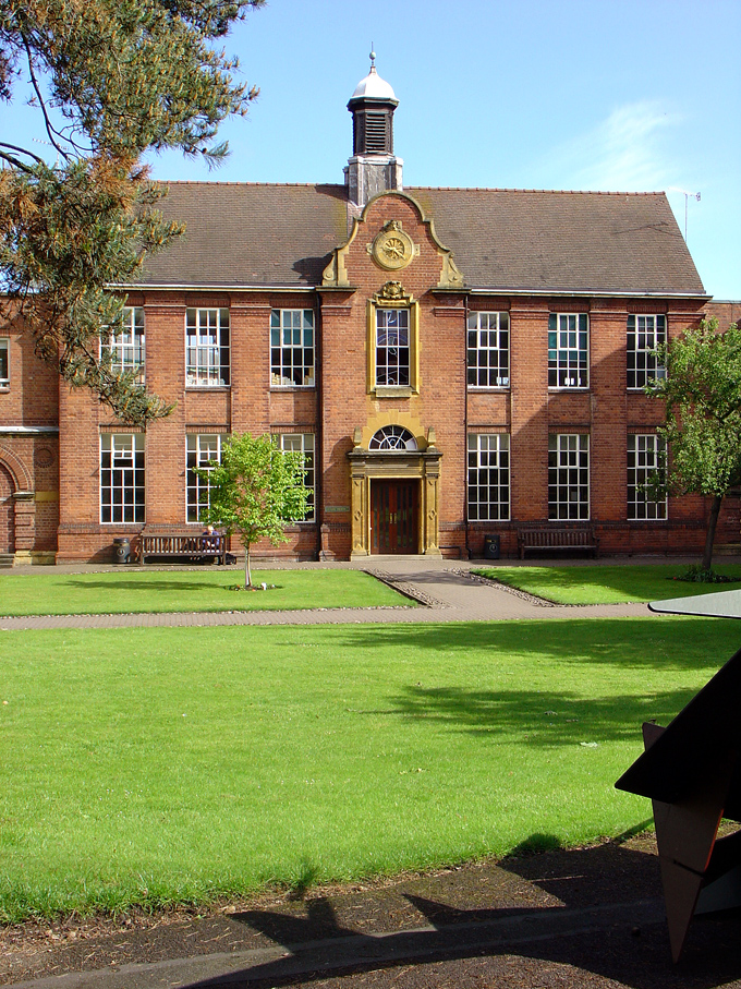 The Clock Block at the Royal Grammar School Worcester.